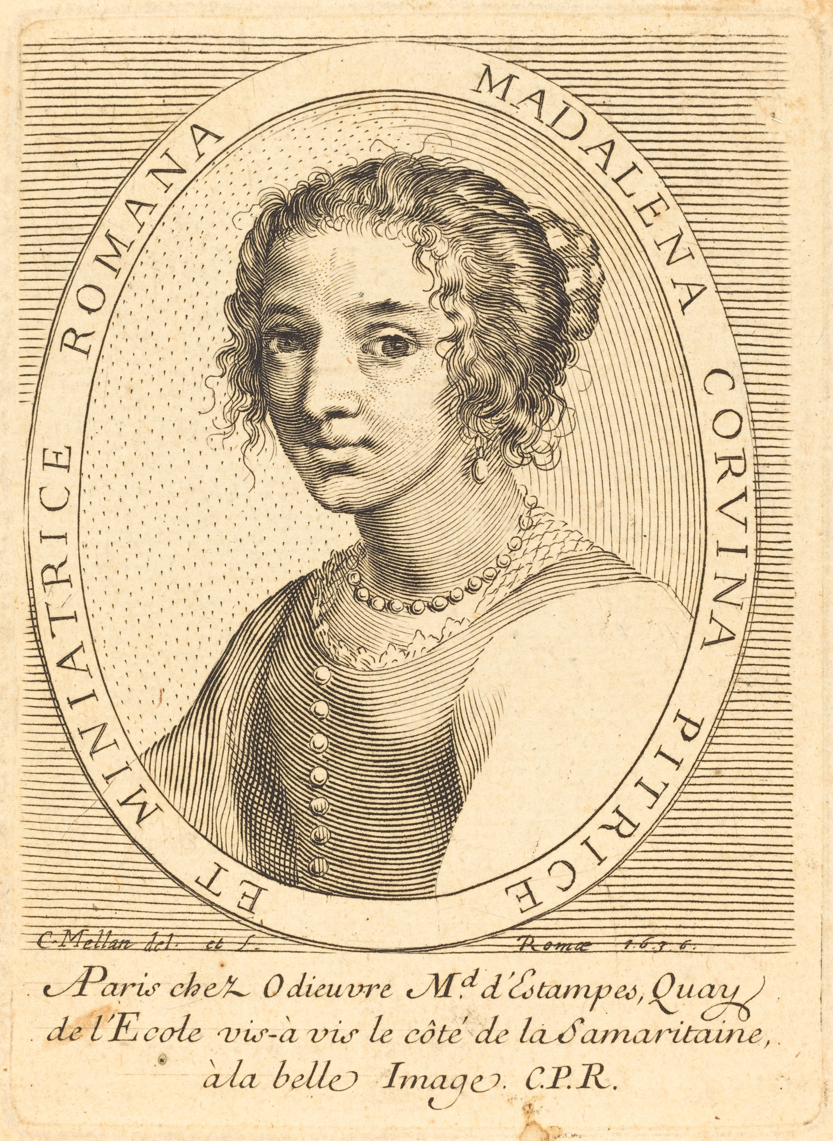 engraving on laid paper